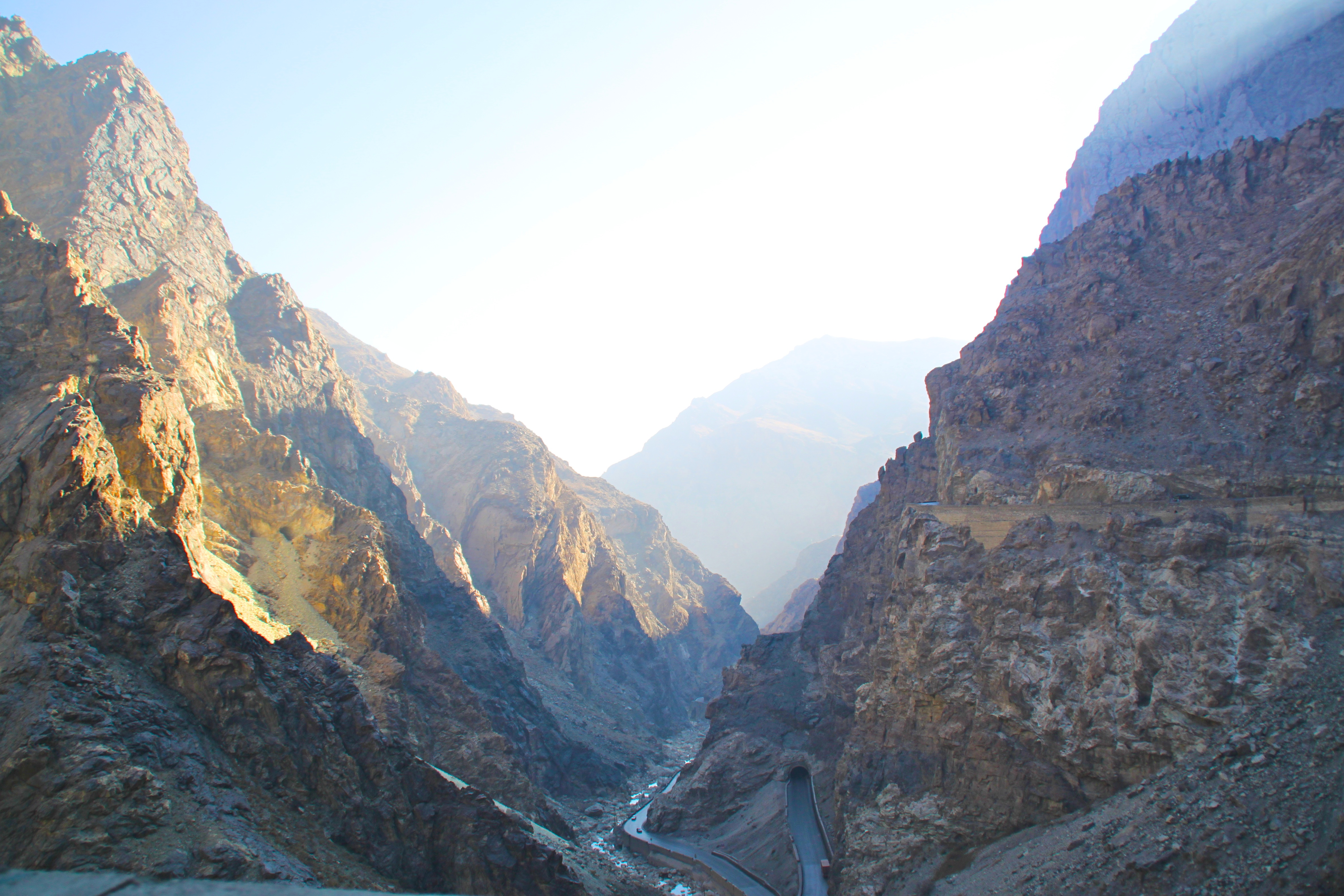 Pictures from the Jalalabad Road, the scene of many spectacular views. Breathtaking cliffs overlooking valleys, and the tanks, tankers, and jingle trucks that run over the sides